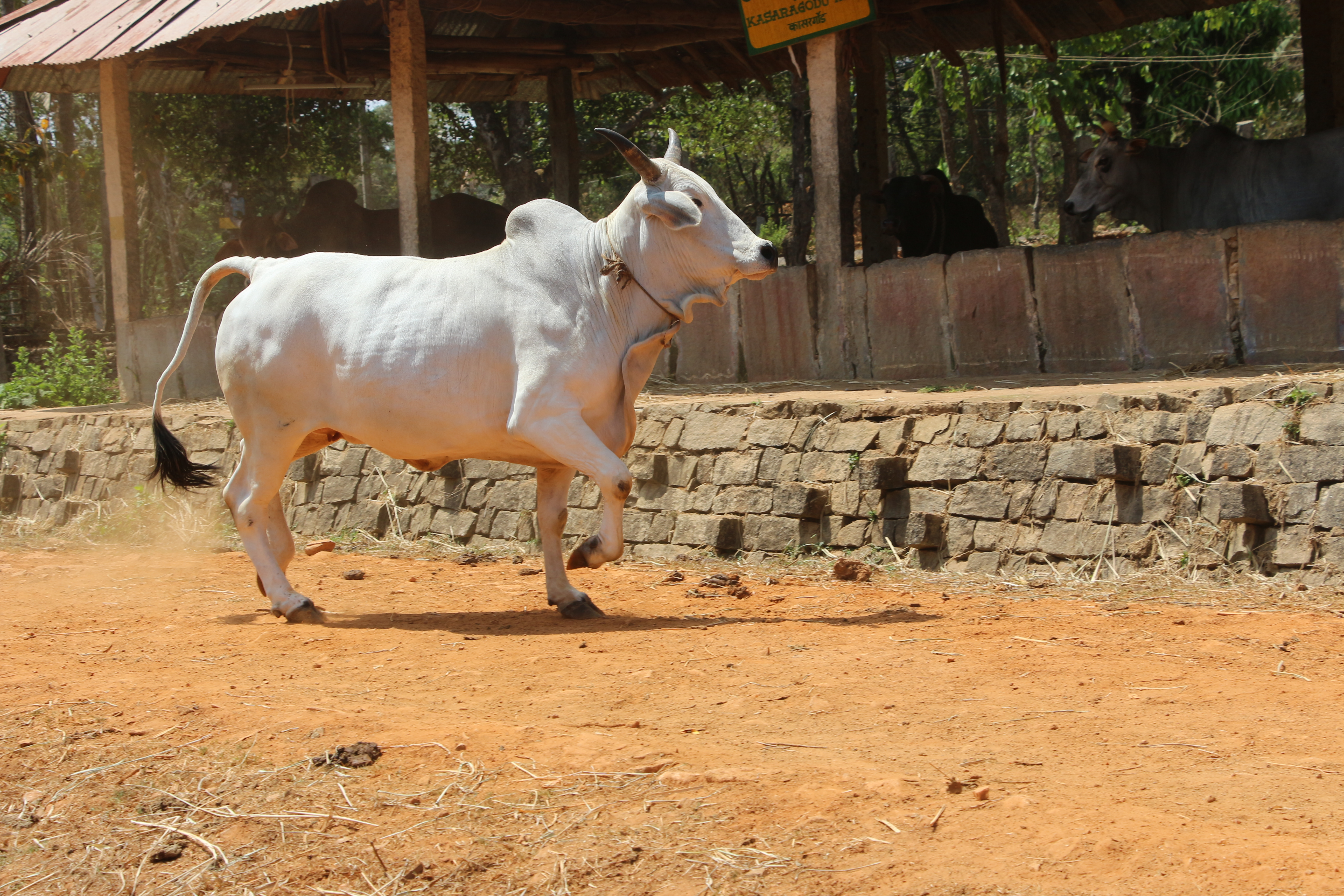 Indian cow breed Malvi ಕನ್ನಡ: ಭಾರತೀಯ ಗೋತಳಿ ಮಾಳವಿ